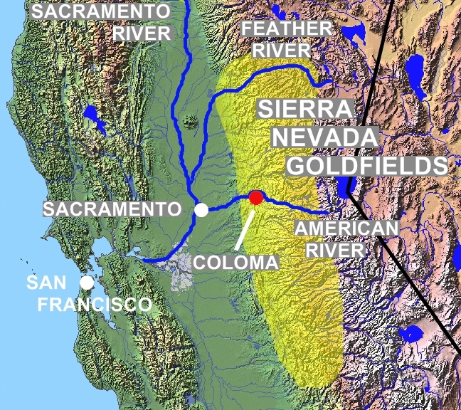 Map of the Sierra Nevada gold fields during the California Gold Rush